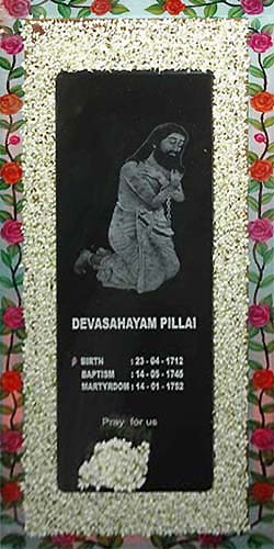 Tomb of Martyr Devasahayam Pillai